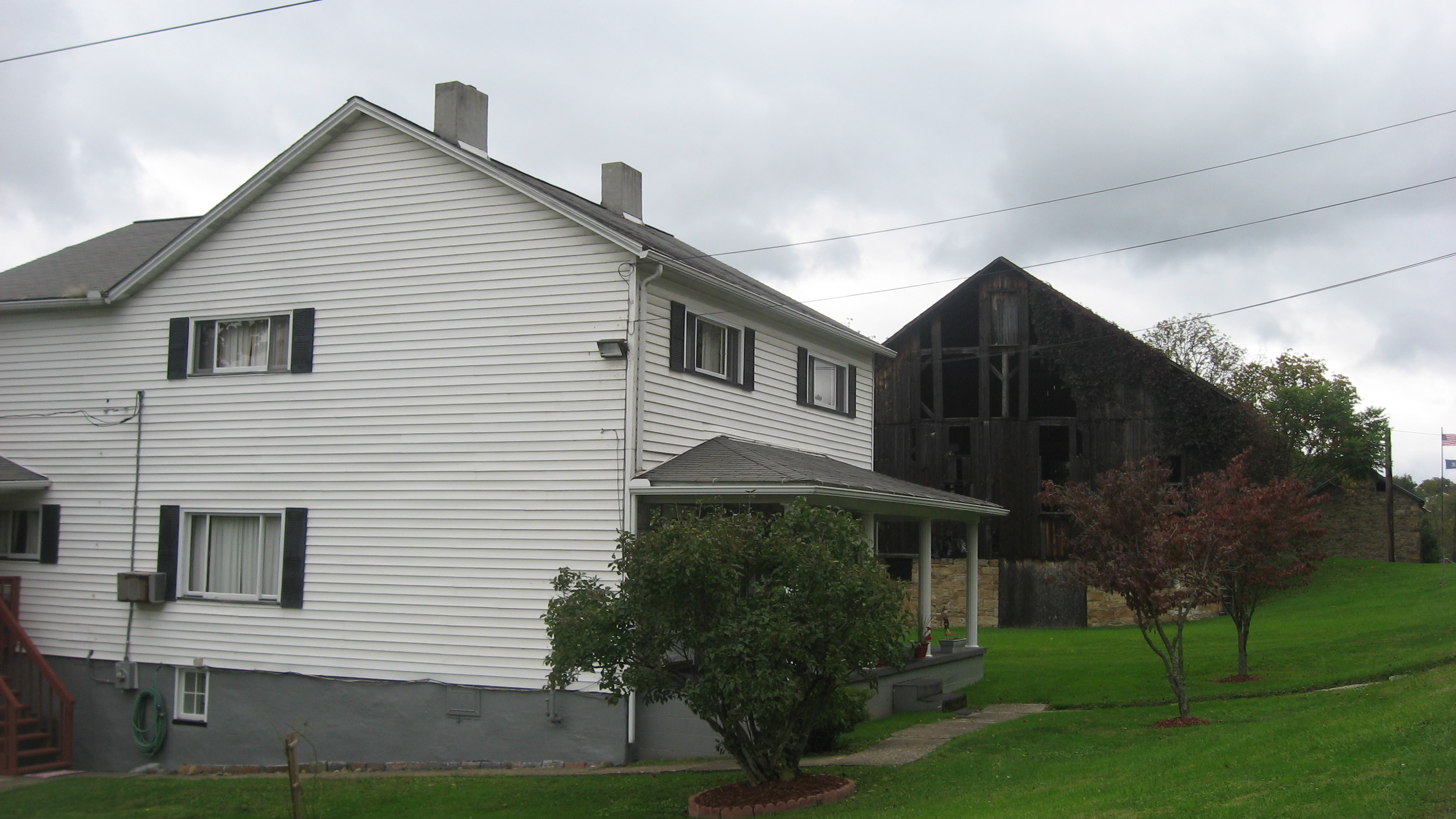 Buildings on the southern side of U.S. Route 40 at Brier Hill in Redstone Township, Fayette County, Pennsylvania, United States. What remains of the community is a historic district that is listed on the National Register of Historic Places. Moreover, the dilapidated wooden barn (built in 1848) is individually listed on the Register with its associated tavern in the background on the far right; they are known as the Peter Colley Tavern and Barn.